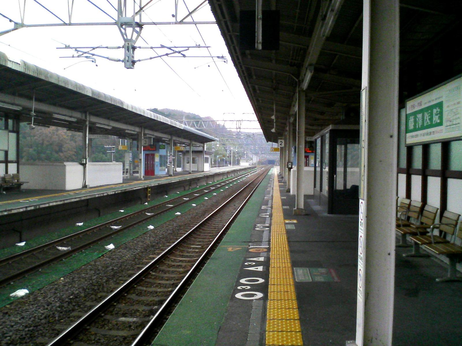 JR Ogoto Station platform